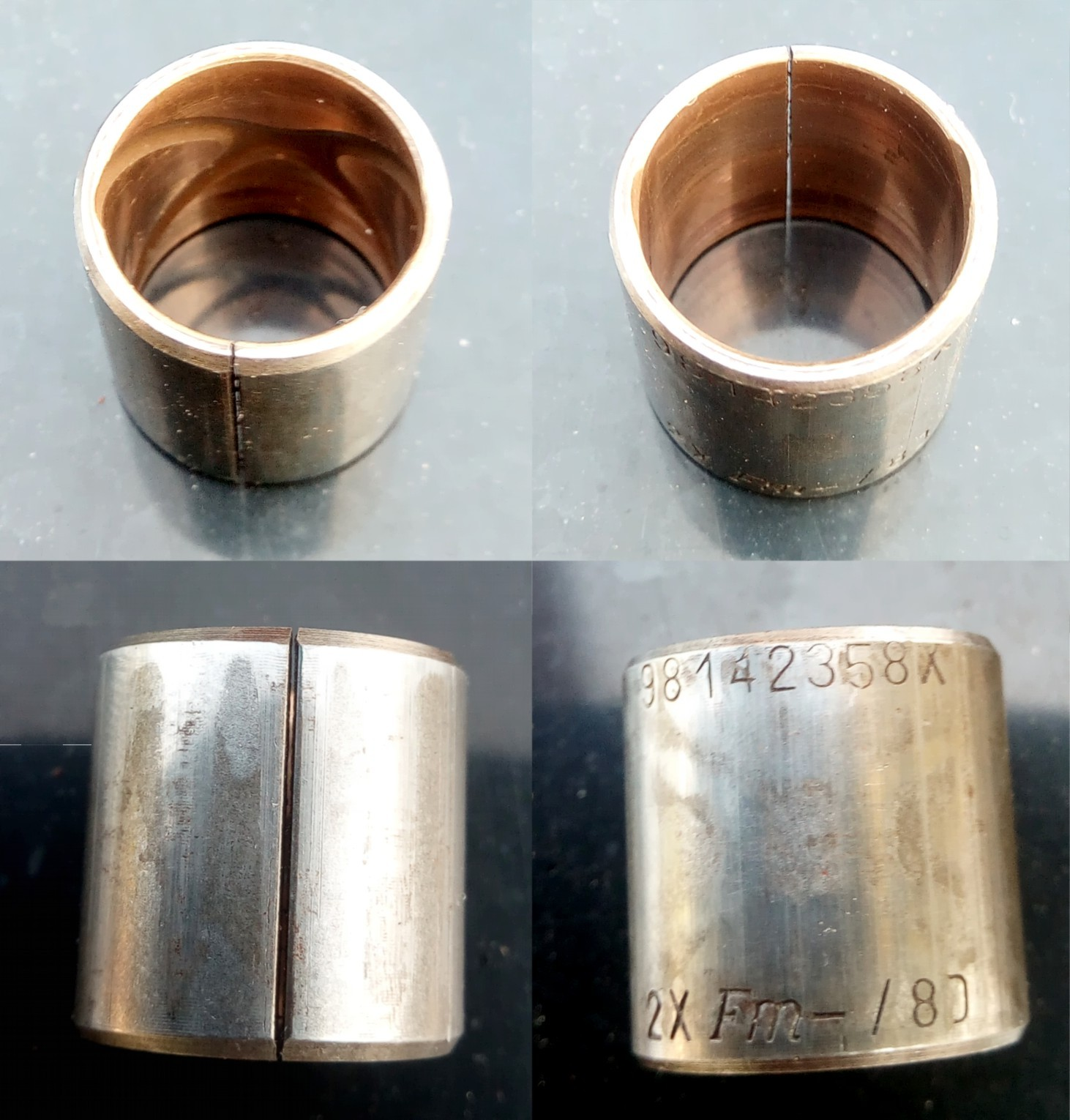 Bushing of a clutch, it is possible to see the cut that allows an easier housing, the grooves to facilitate lubrication and the identification code